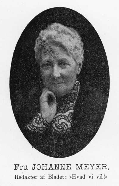 Photograph of Johanne Meyer (1838-1915), a Danish suffragist, pacifist and journal editor